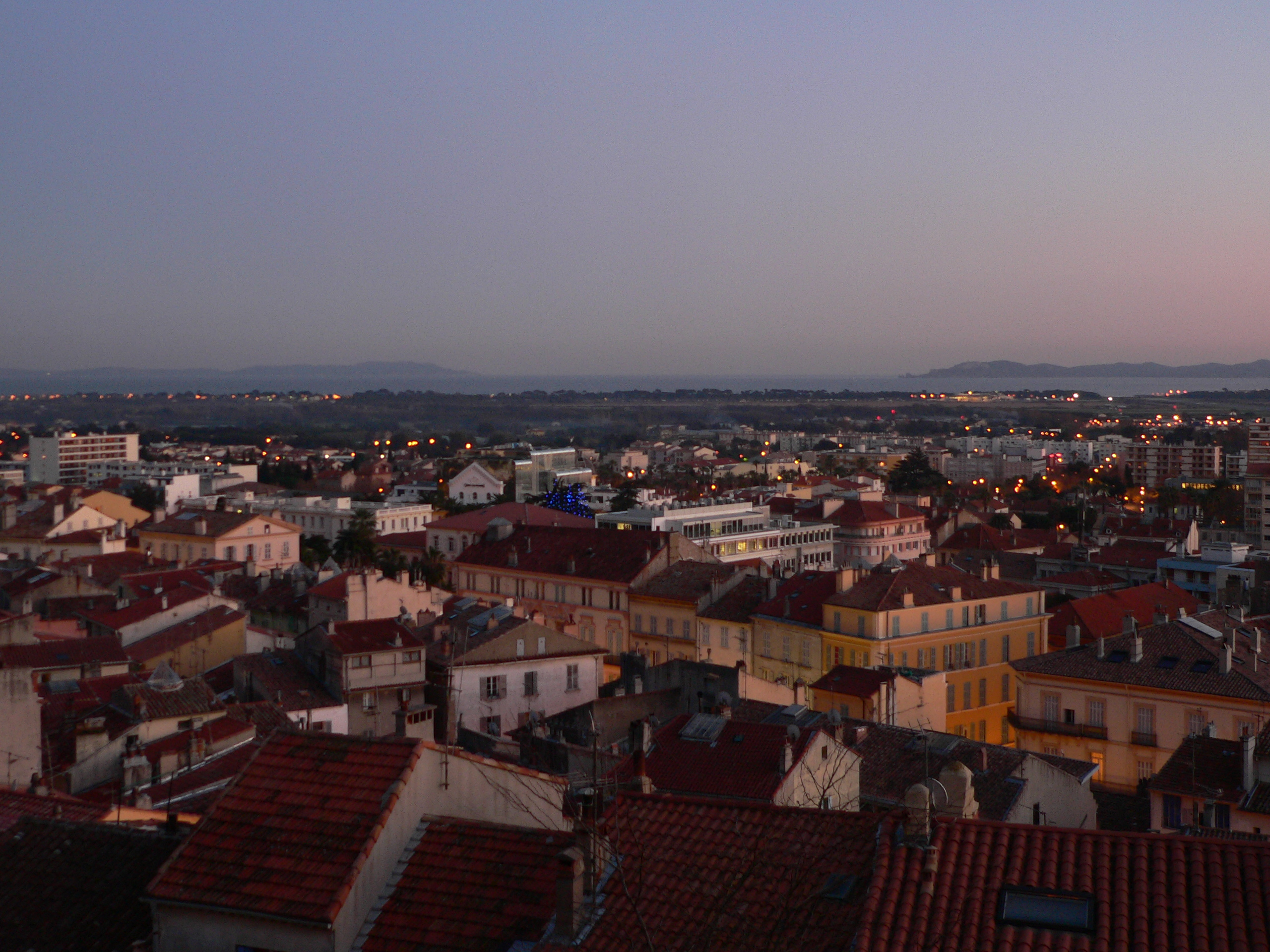 Hyères, France seen from the heights at sunset